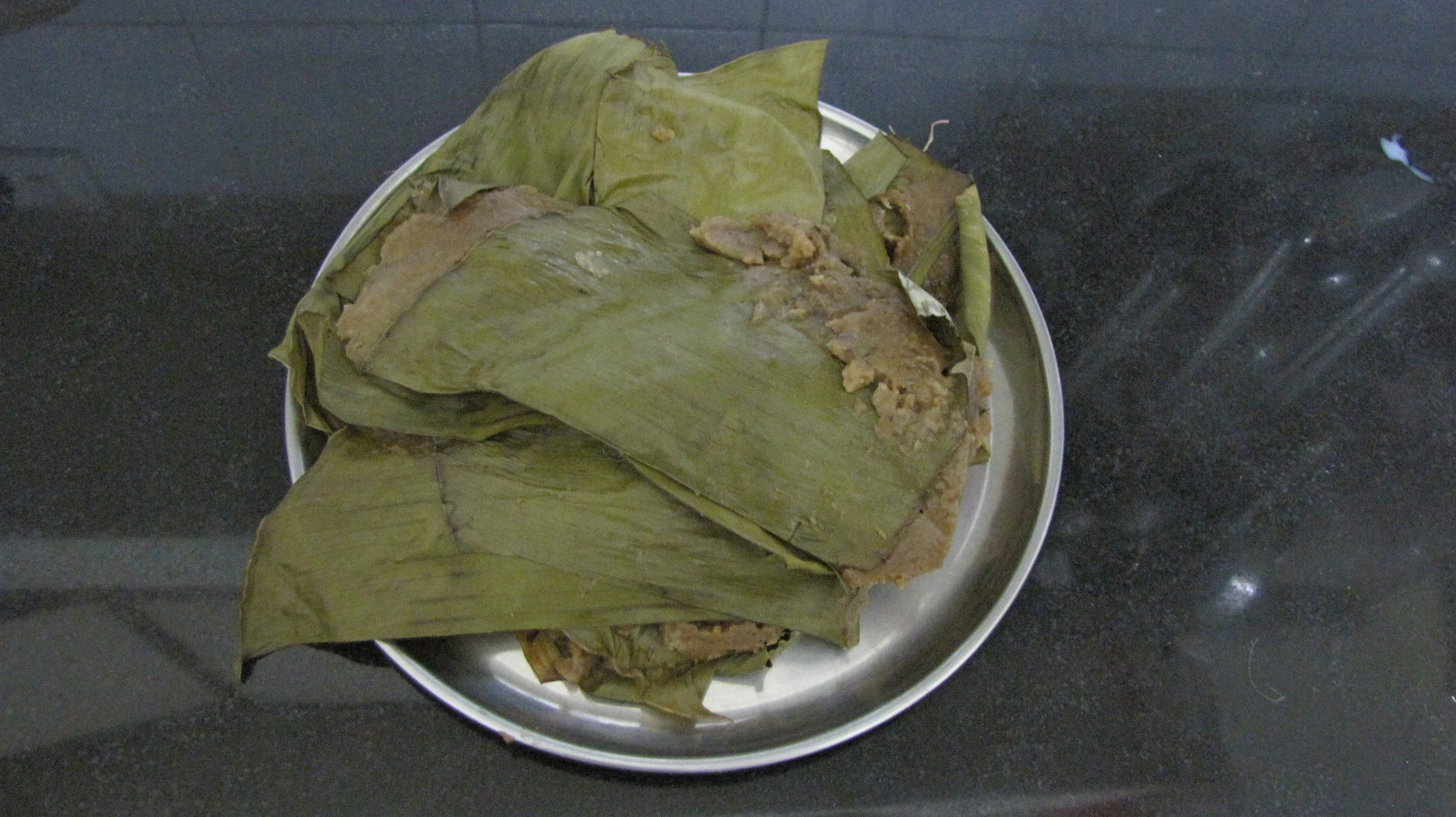 Patoleo, a sweet pancake dish from western India, prepared by wrapping the dough in leaves of Turmeric Curcuma longa and steaming.